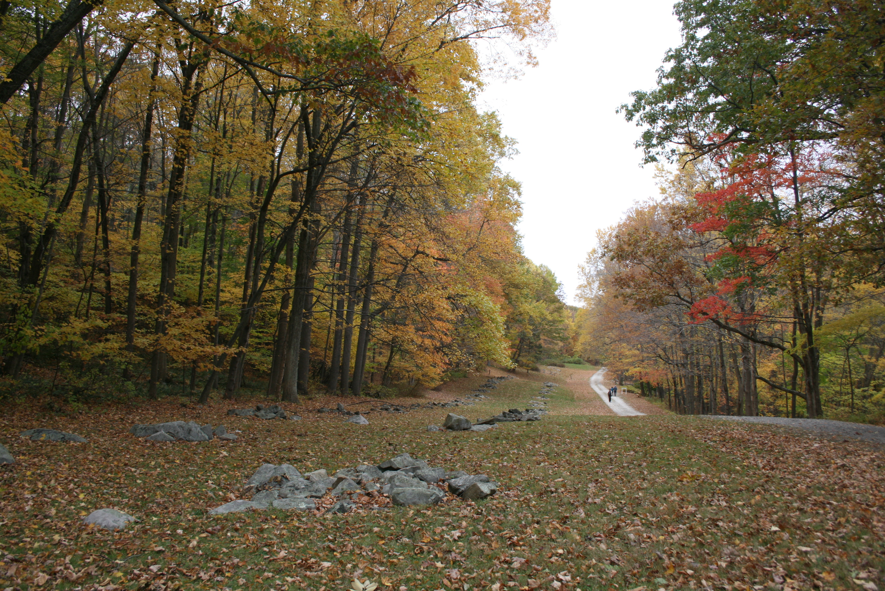 Company Street - piles of collapsed stone chimneys mark the location of a 1778 hut. In Putnam Memorial State Park, Redding, CT